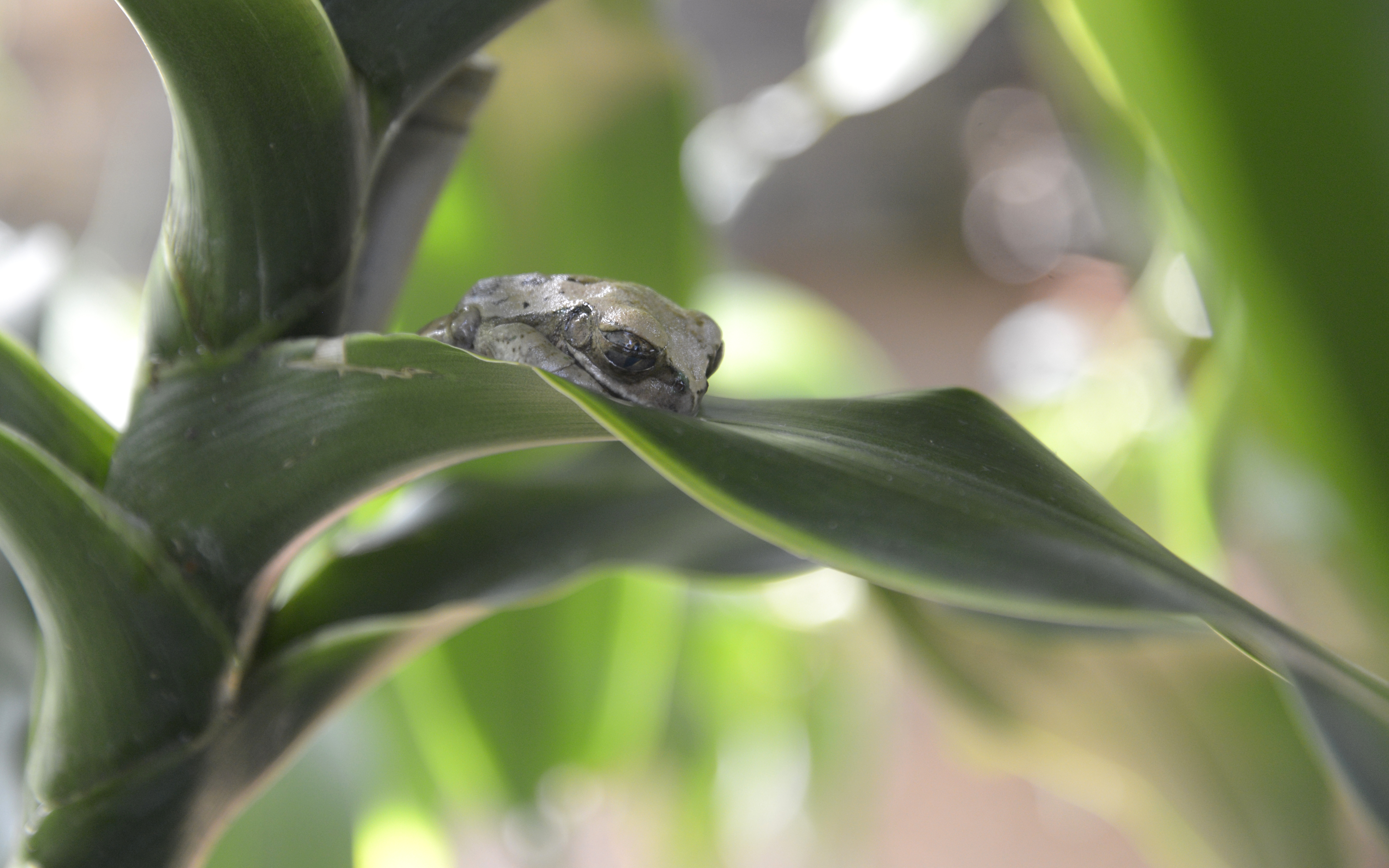 Yellow-spotted tree frog (Leptopelis flavomaculatus) in the greenhouse of MUSE - Science Museum in Trento.